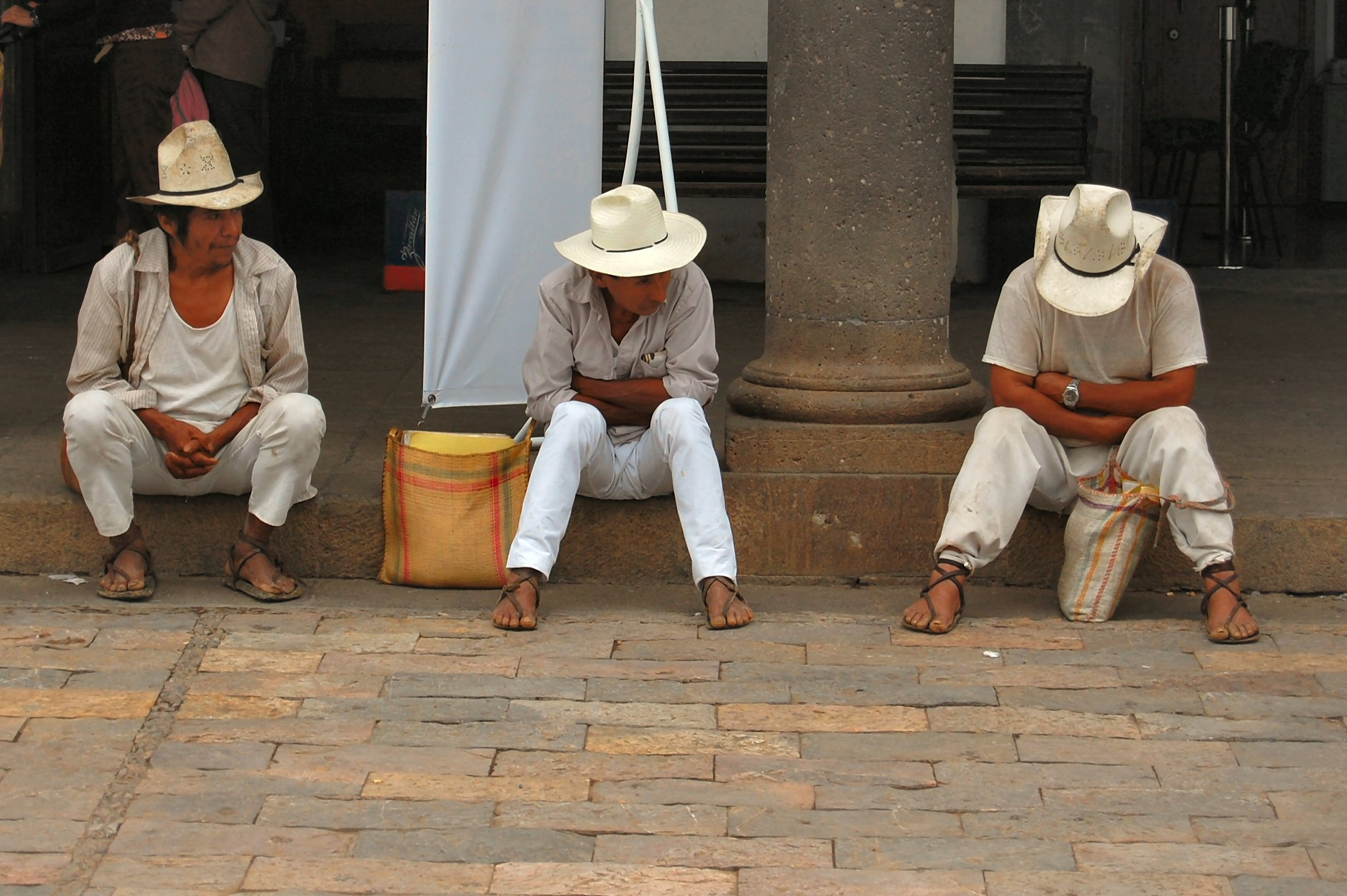 Nahua men at Zacatlan (Puebla, México)